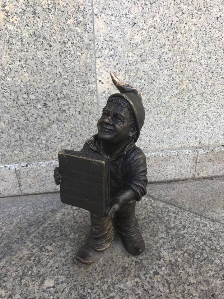 JPEG photo file.